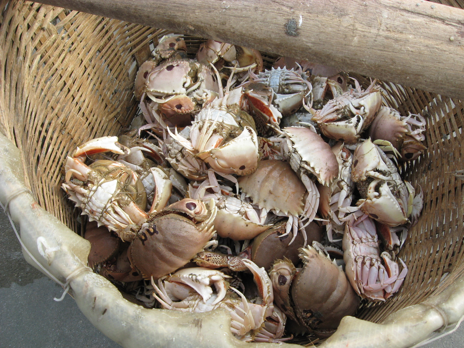 Strange looking crabs caught by local fishermen at Mui Ne, South Vietnam.